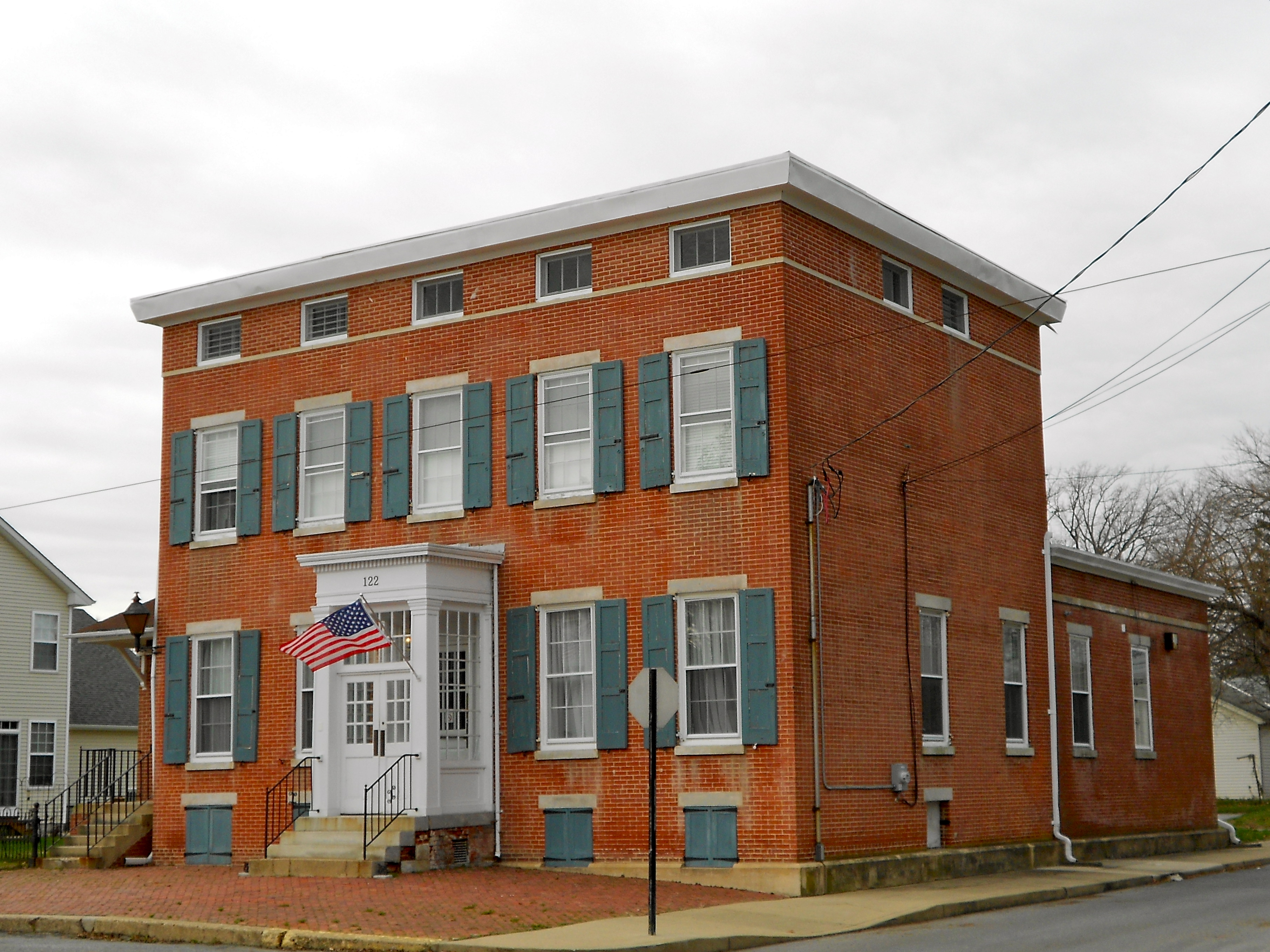 Very handsome house, former Delaware City National Bank, at 122 Washington Street in the Delaware City Historic District (on NRHP since December 15, 1983) The historic district is roughly bounded by the Delaware River, Dragon Creek, Delaware Route 9, and the Delaware and Chesapeake Canals, Delaware City, DE